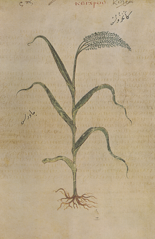 kenkhros folio 191v